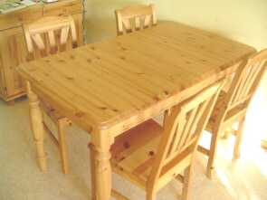 A table and chairs, taken by Saintswithin